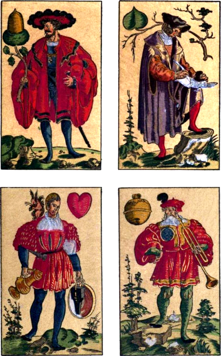 Jacks from a German deck of cards engraved in 1545